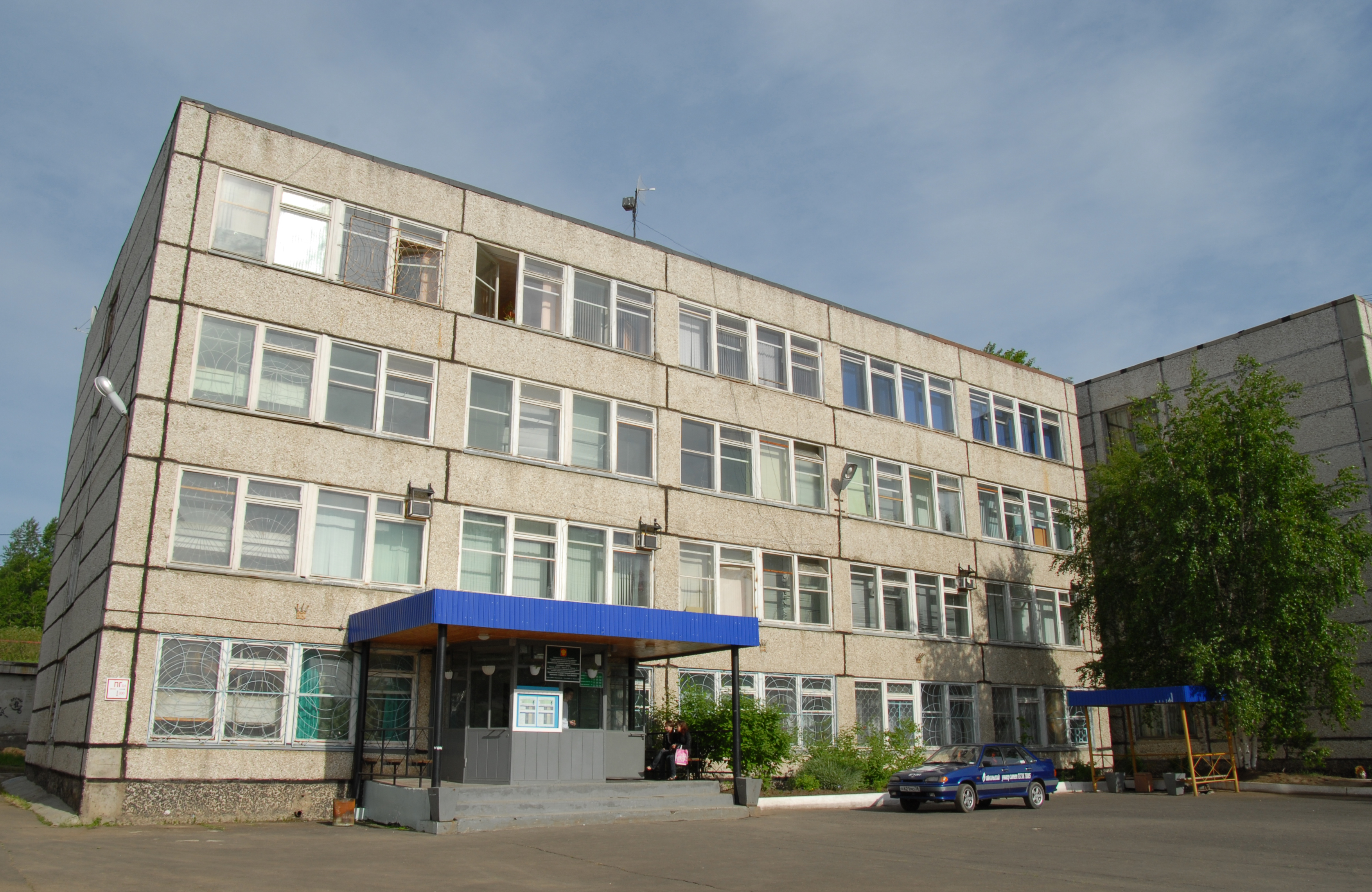 Bilding fBGUEP in Ust-Ilimsk